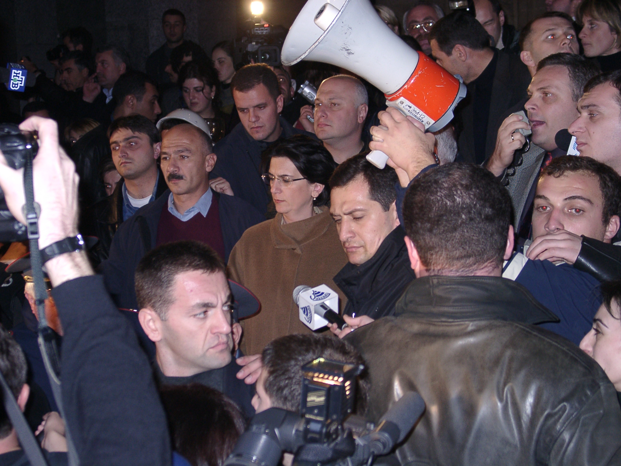 Rose Revolution Leaders